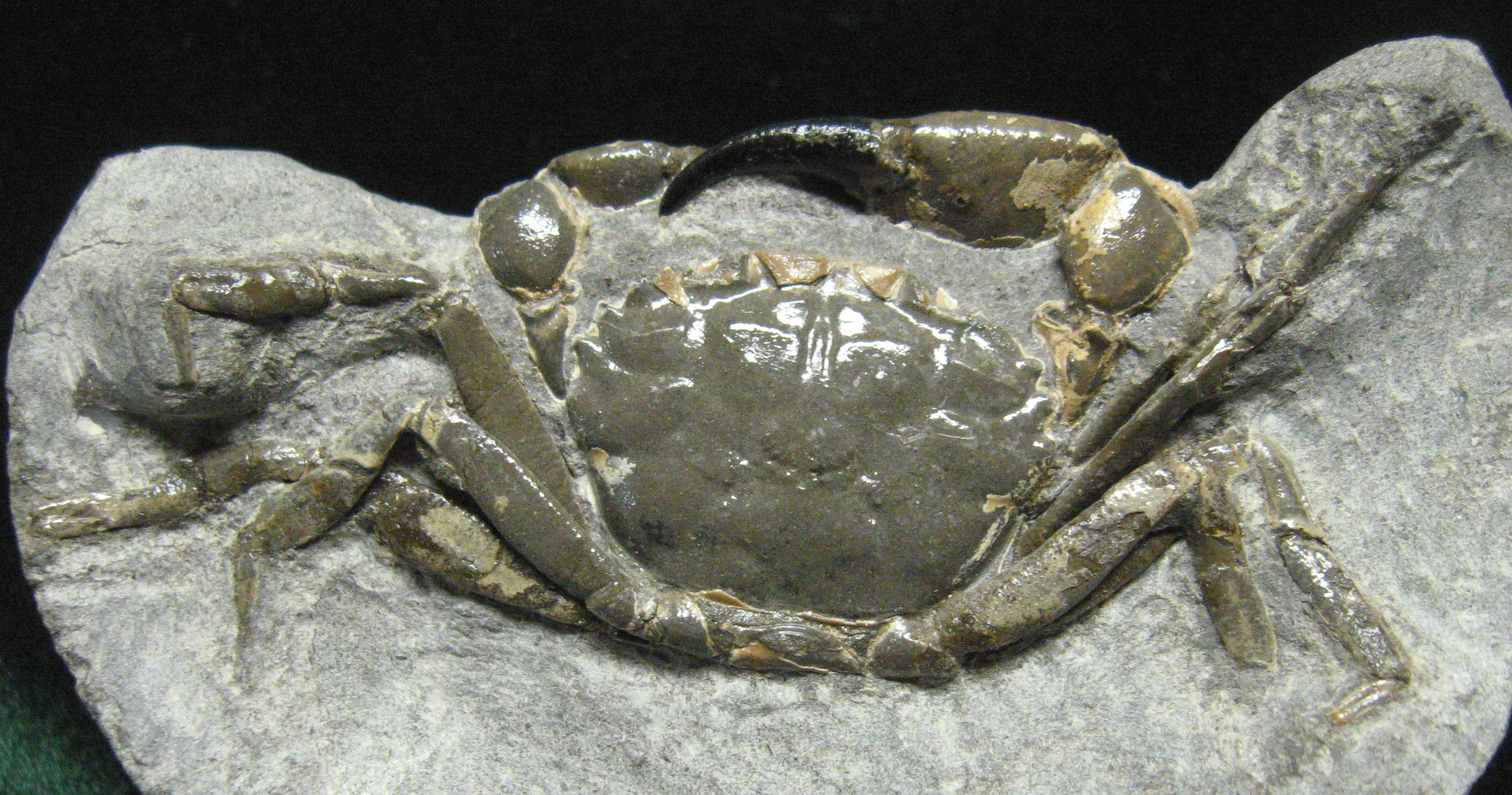 Fossil specimen of a Branchioplax species (cf Branchioplax carmanahensis) in a concretion from the Oligocene Makah Formation, Clallam County, Washington, USA. Stonerose Interpretive Center Gary Eichhorn crab collection # SR EC 07-01-26